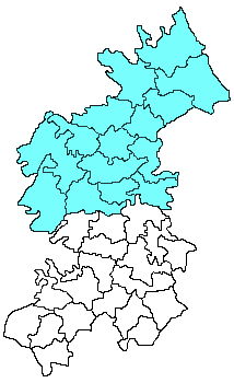 Parvatipuram revenue division in Vizianagaram district (in cyan color)